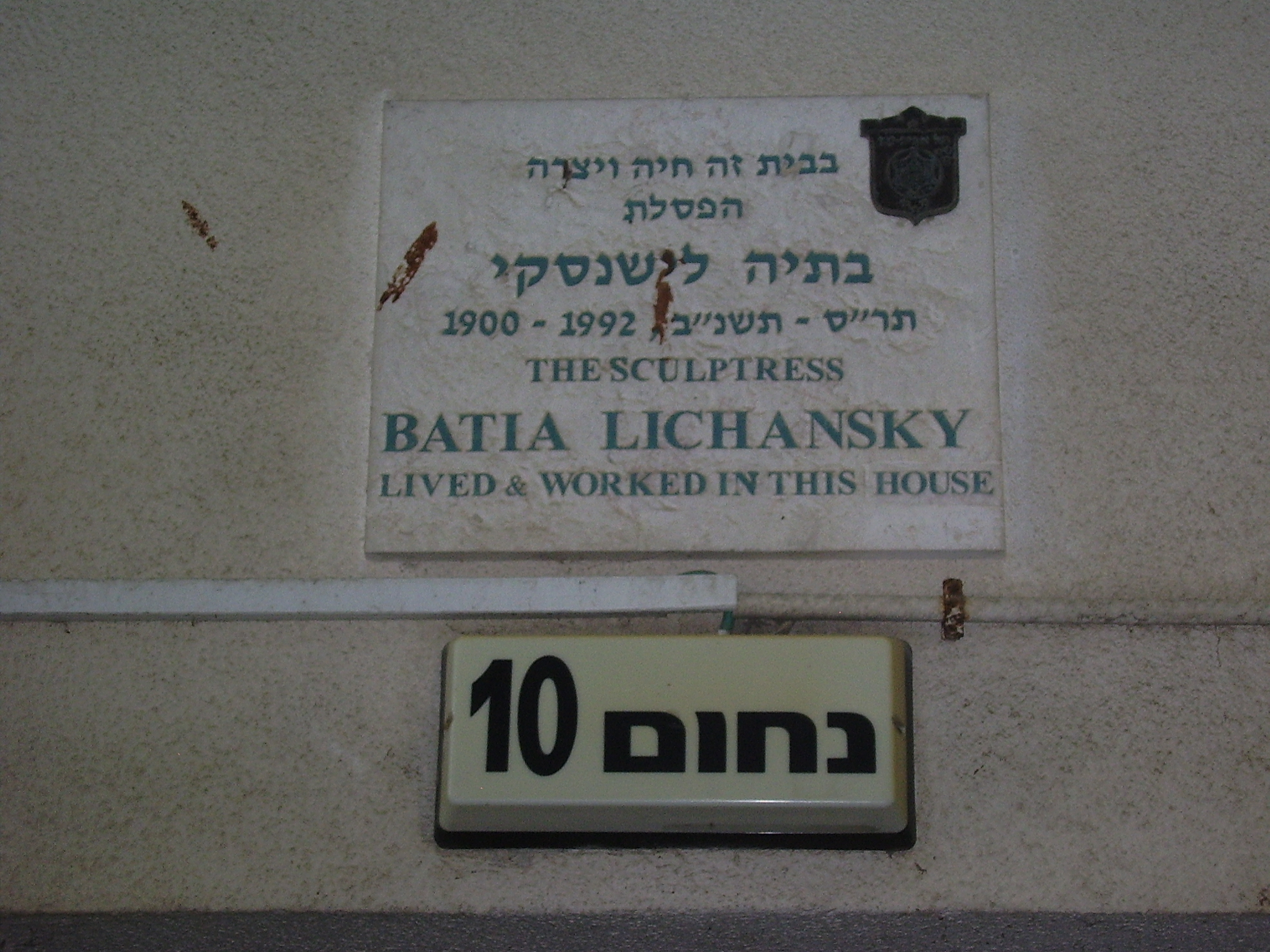 plaque memorial on the sculptress batia lichansky house in tel aviv לוחית זיכרון על ביתה של הפסלת בתיה לישנסקי ברח' נחום 10 בתל אביב